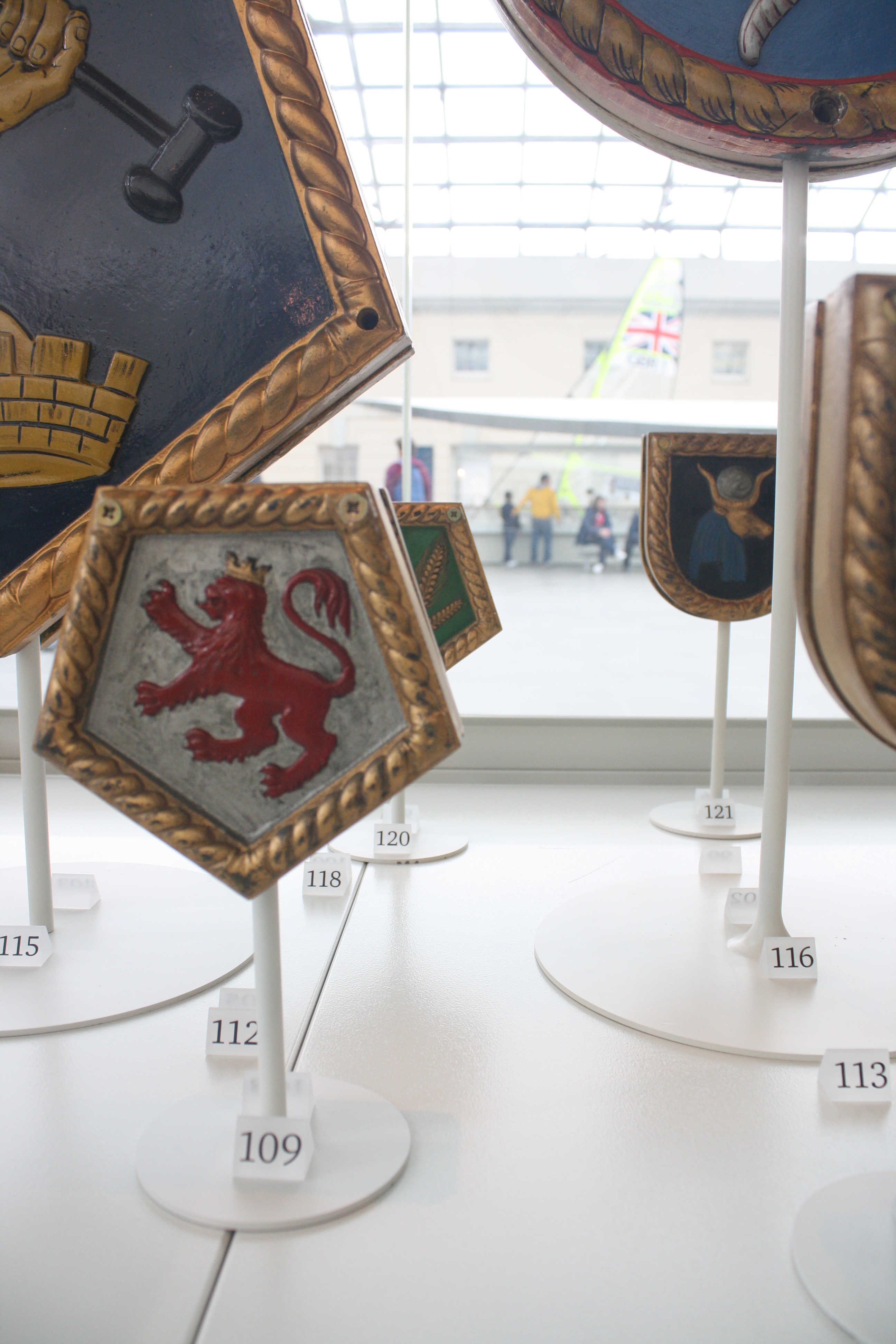 Ship heraldry at the NMM